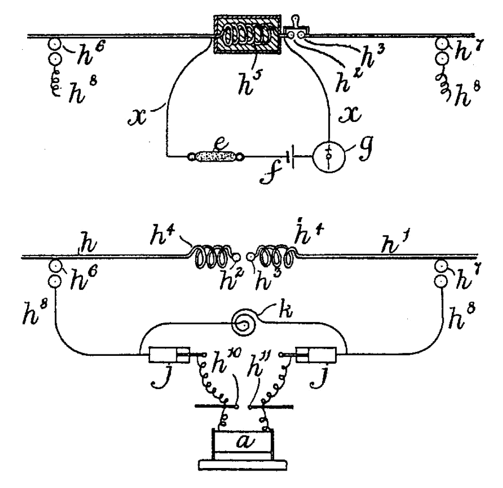 Two circuit schematics from British physicist Oliver Lodge's 10 May 1897 patent, showing his "syntonic" wireless telegraphy radio transmitter (bottom) and receiver (top). This patent was important because it was the first radio system with resonant circuits in the transmitter and receiver which were tuned to resonance with each other. When it was renewed in 1911 the Marconi Wireless Telegraphy Co. was forced to buy it from Lodge, to protect its own tuned radio system from suits.